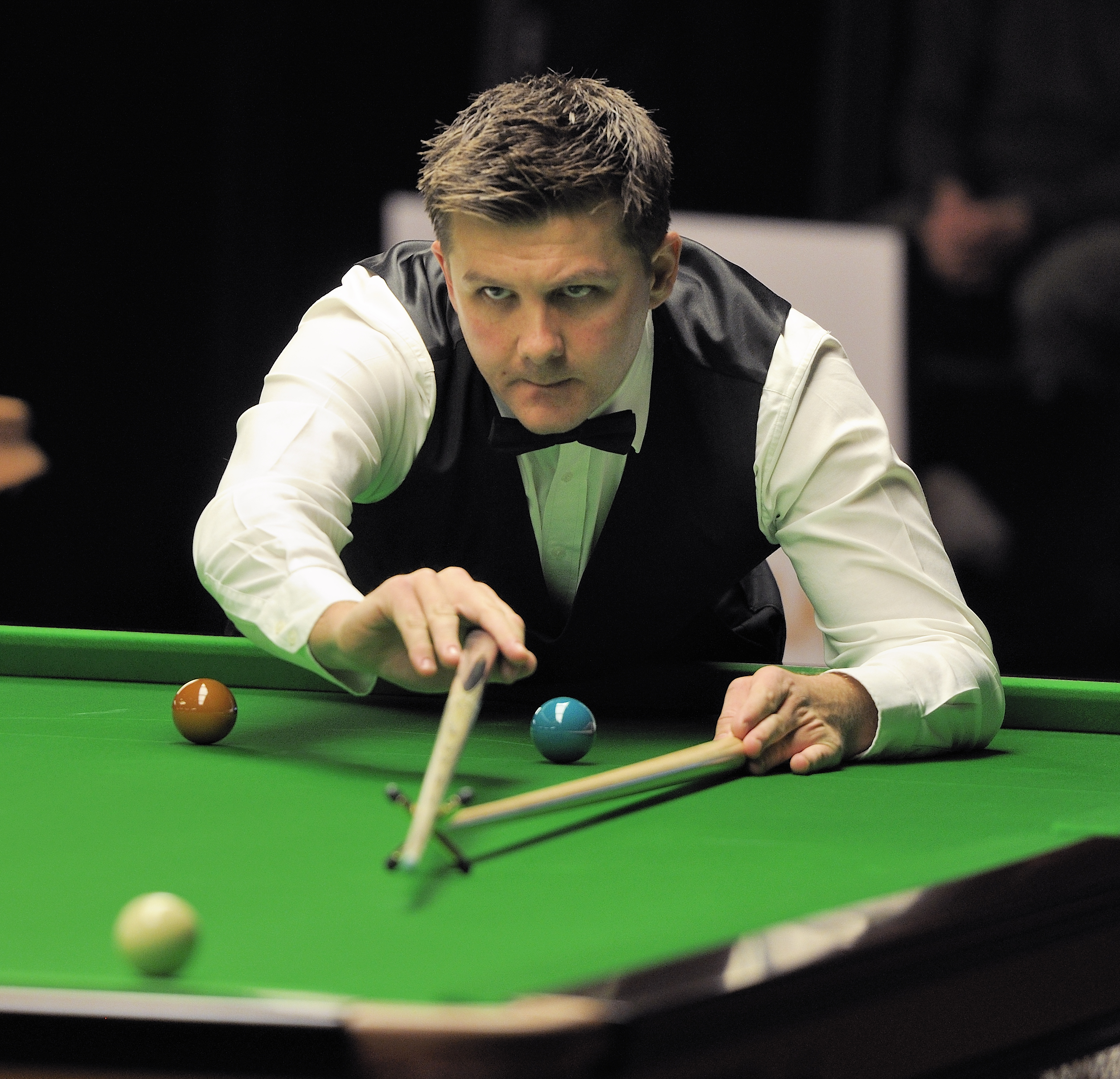 Picture taken in Berlin during the Snooker German Masters in 2014. Ryan Day.